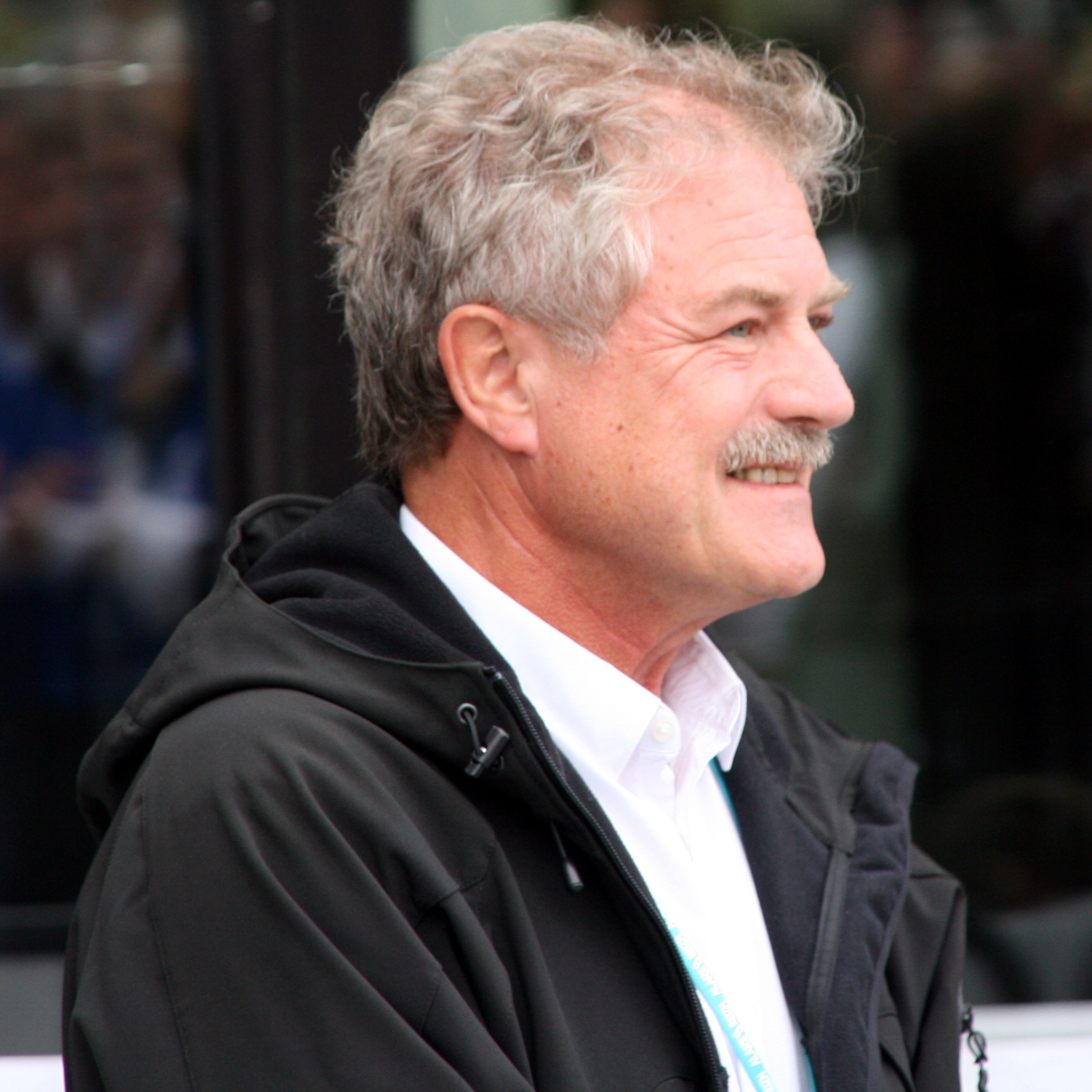 Norbert Métairie, mayor of Lorient, Brittany, France, since 1998.